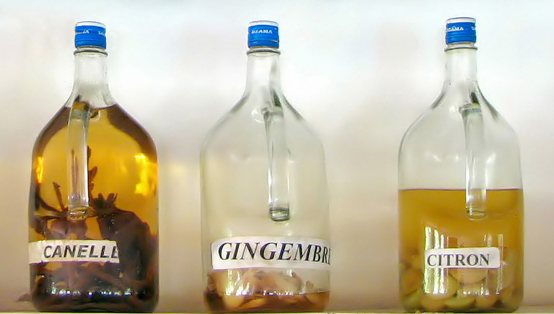 Local rum, Miandrivazo, Madagascar